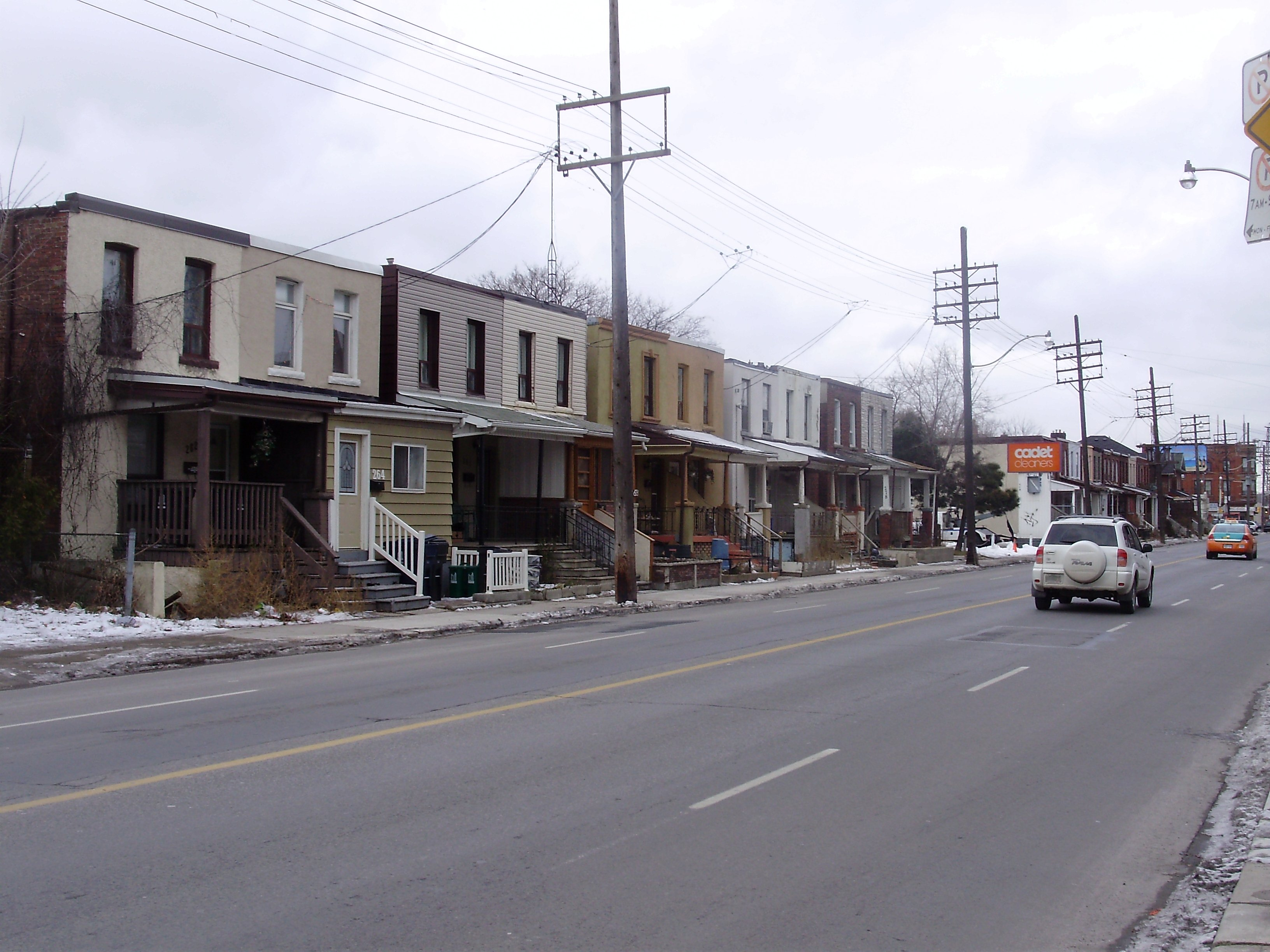 Homes line the west side of Old Weston Road, just south of its intersection with St. Clair Avenue West, in the Weston-Pellam Park neighbourhood of Toronto, Ontario, Canada.